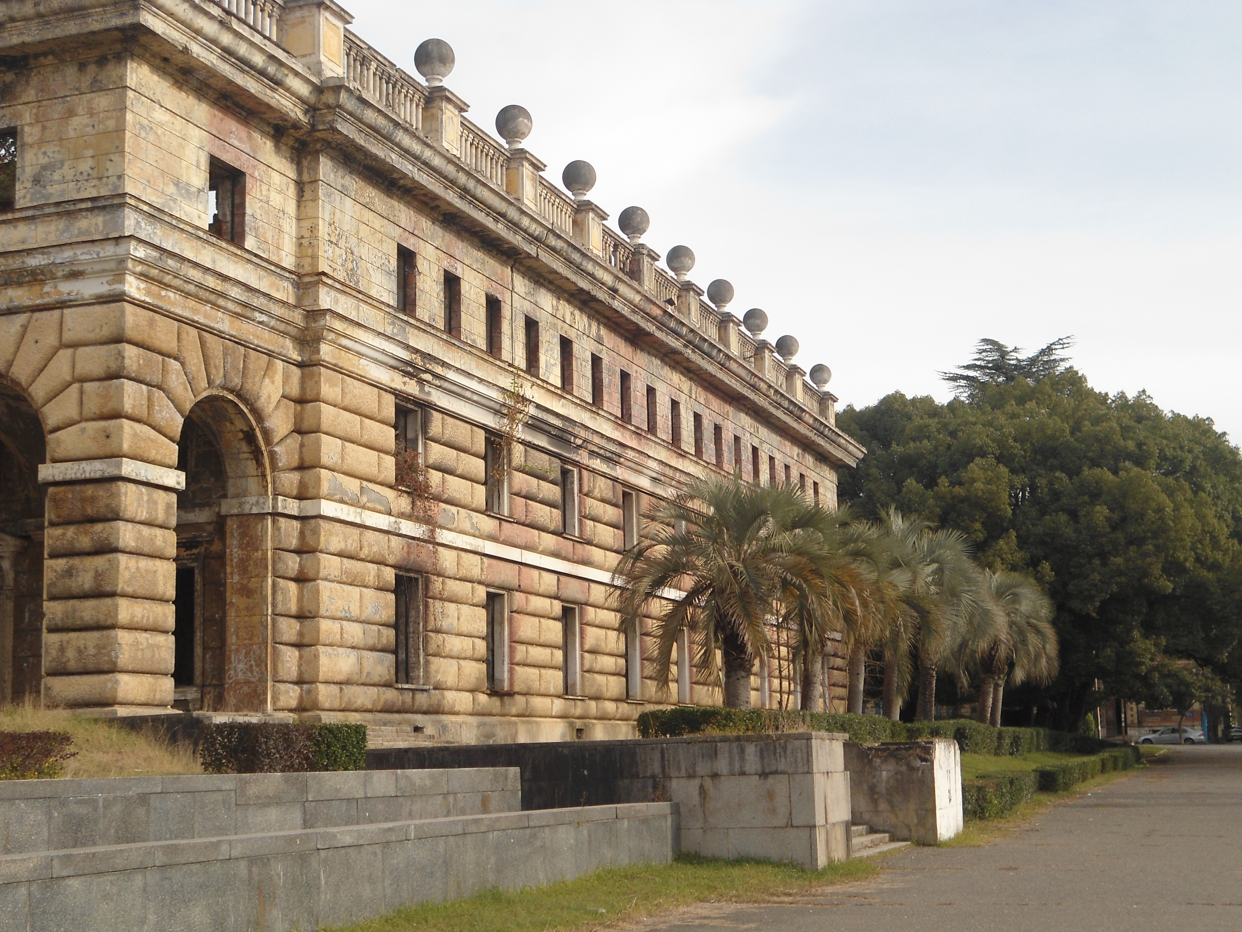 Exterior shot of the abandoned Soviet admin building in Sukhumi, Abkhazia. January 2013.